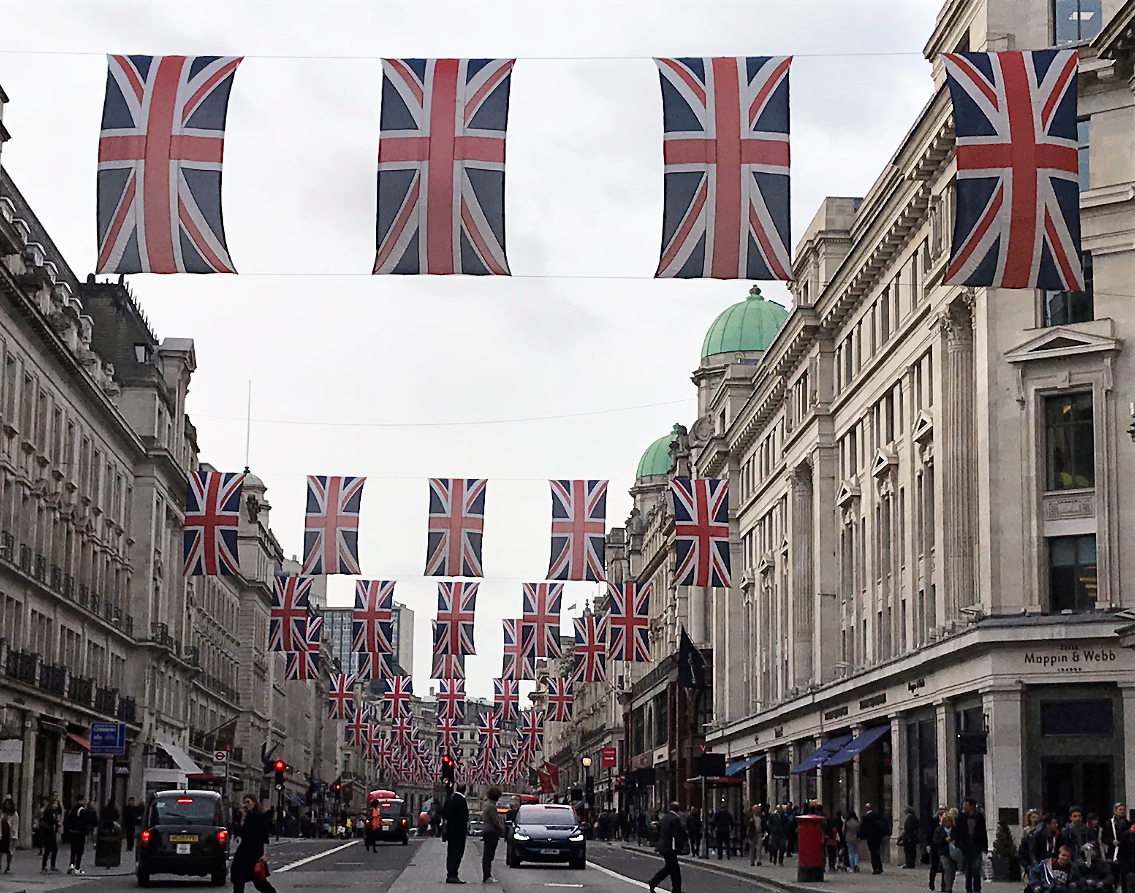 Union flags along Regent Street, London.